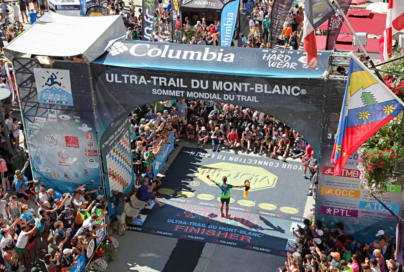 Chamonix